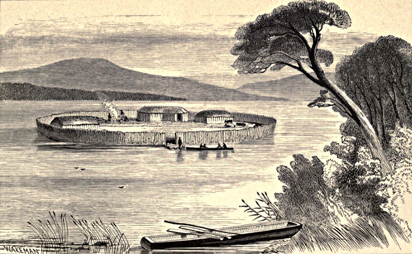 Illustration of Lake dwelling in Ireland